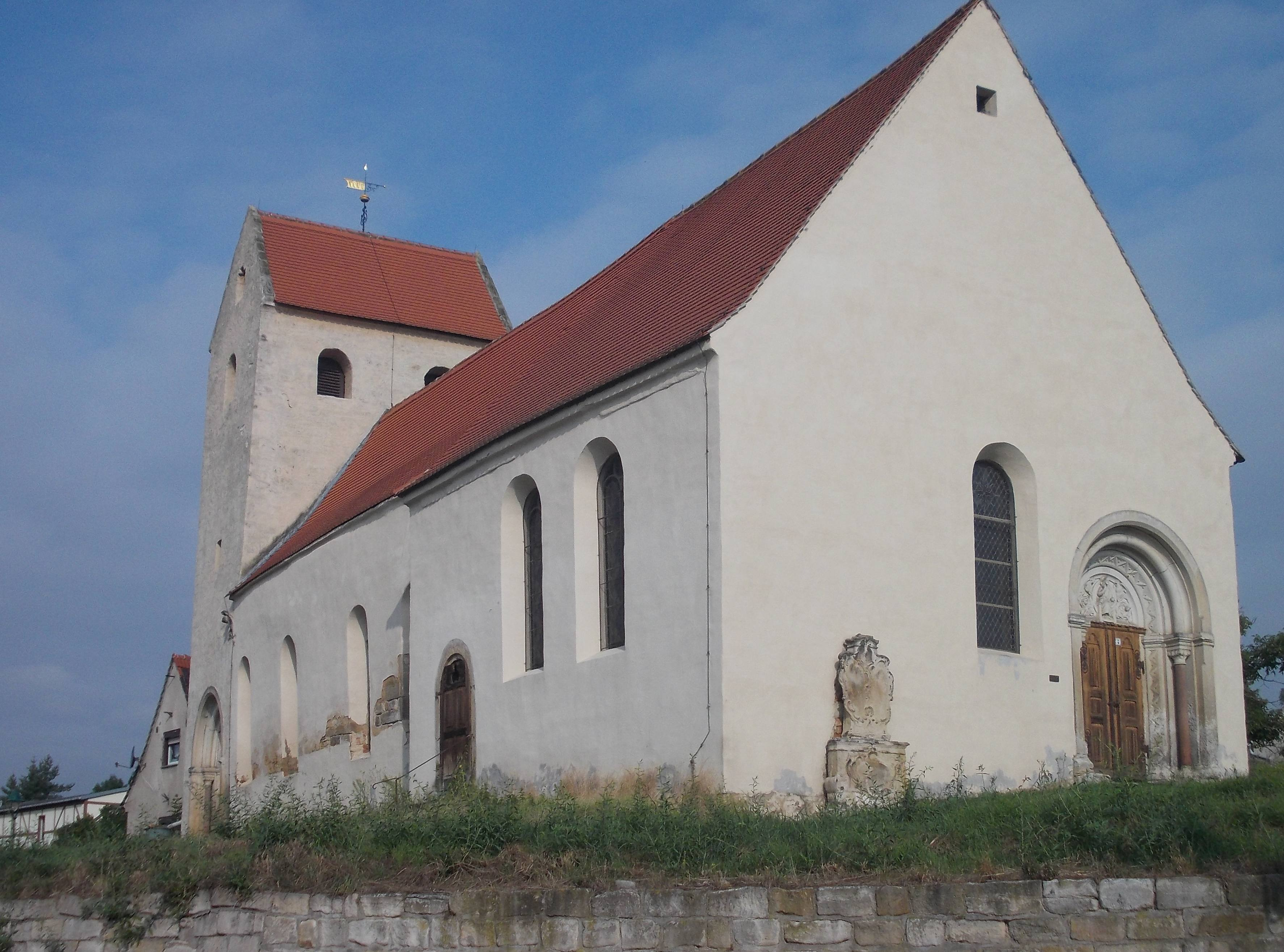 Webau church (Hohenmölsen, district: Burgenlandkreis, Saxony-Anhalt)